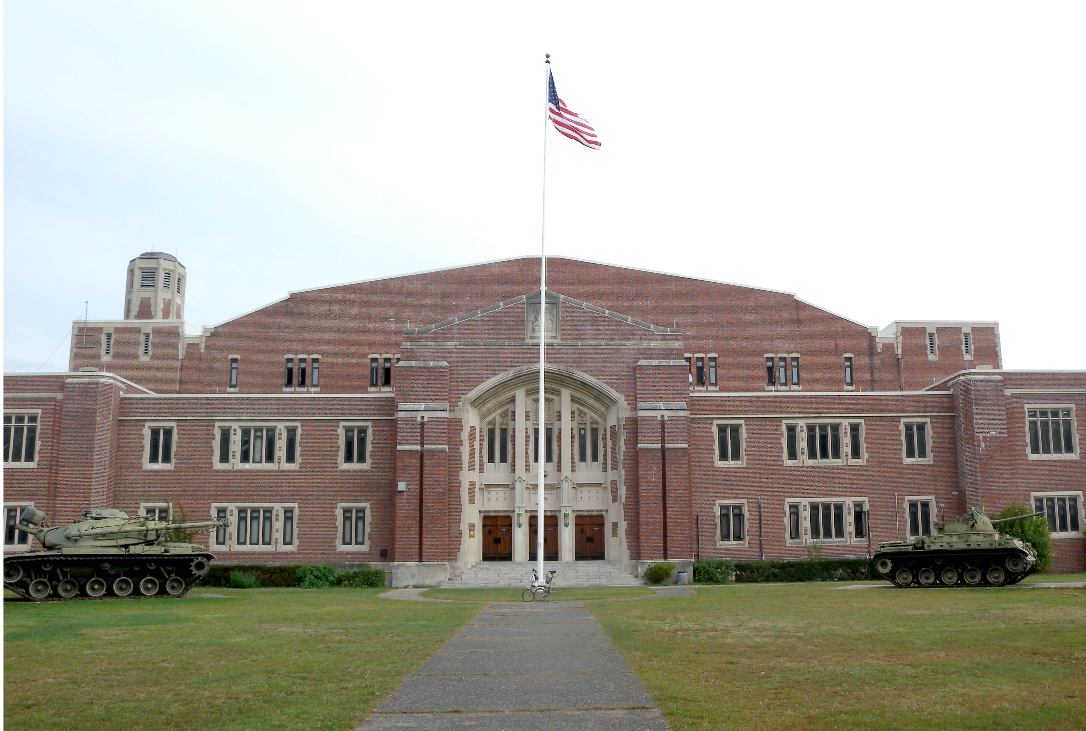 Looking east at front of Teaneck Armory from near Teaneck Road in the afternoon.